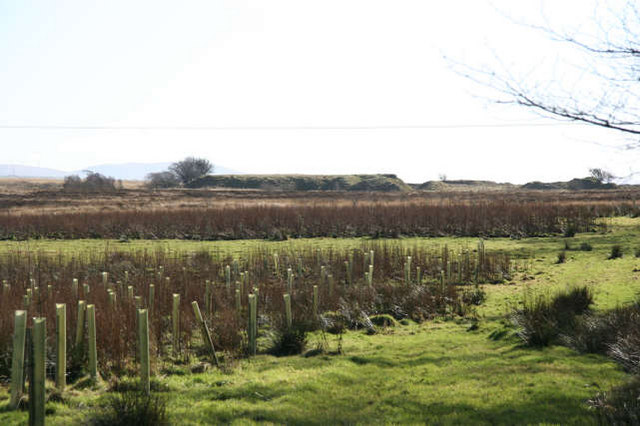 Afforestation An area of "lost mining settlements", old coal pits and disused waste bings, now being planted by Scottish Woodland. Opencast mining has started on the other side of Airds Moss in the Roundshaw and Darnconnor Farm areas.